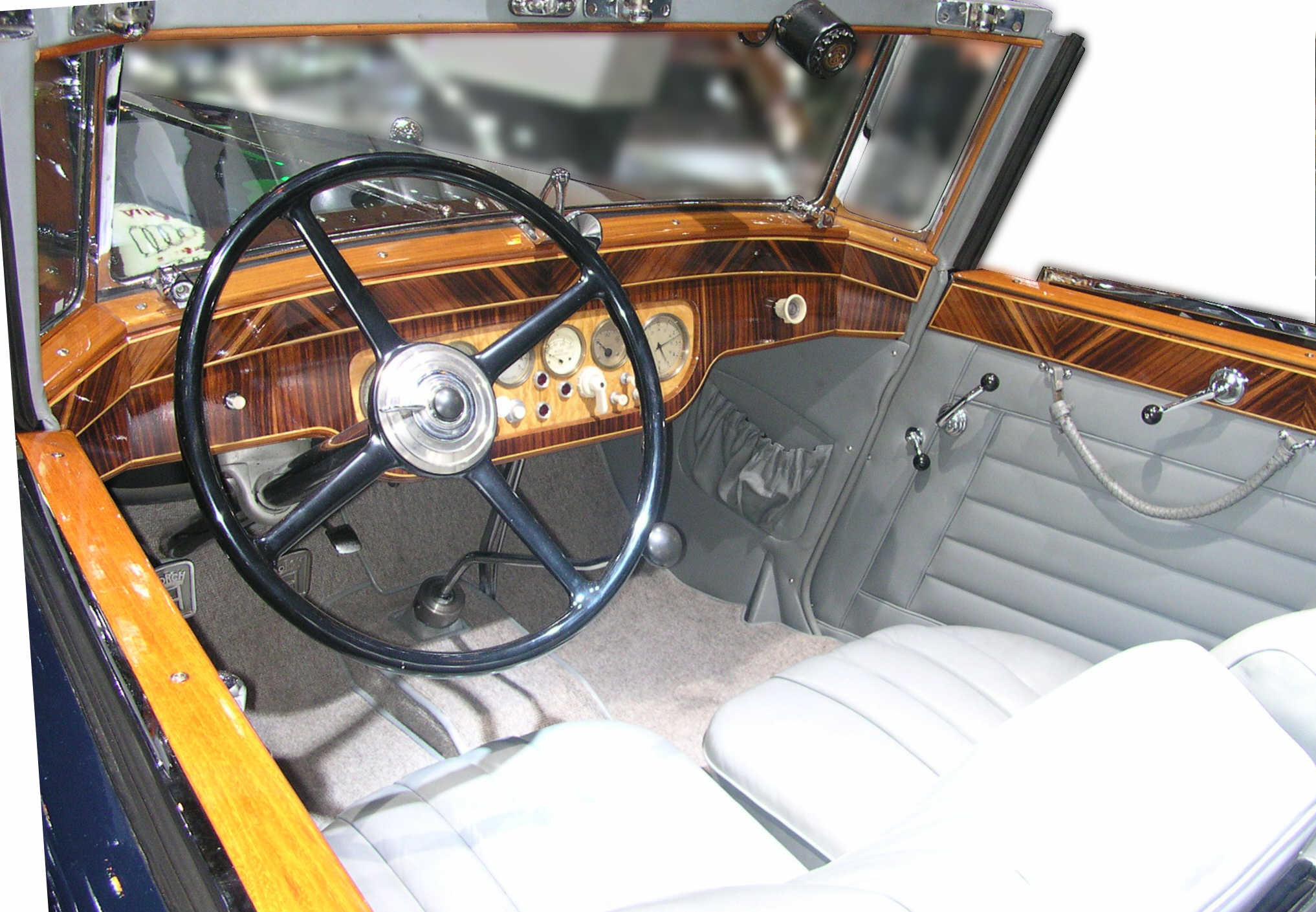 Essen Techno-Classica 2007, Horch 670 dashboard